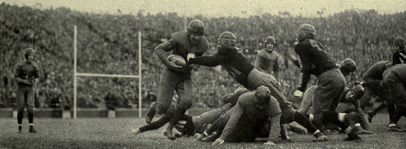 Photograph of Joe Gembis carrying the ball against Iowa This work is in the public domain because it was published in the United States between 1923 and 1963 and although there may or may not have been a copyright notice, the copyright was not renewed. Unless its author has been dead for the required period, it is copyrighted in the countries or areas that do not apply the rule of the shorter term for US works, such as Canada (50 pma), Mainland China (50 pma, not Hong Kong or Macao), Germany (70 pma), Mexico (100 pma), Switzerland (70 pma), and other countries with individual treaties. See Commons:Hirtle chart for further explanation. Deutsch | English | español | français | italiano | 日本語 | 한국어 | македонски | português | português do Brasil | русский | українська | edit|Template:PD-U This work is in the public domain because it was published in the United States between 1923 and 1977 and without a copyright notice. Unless its author has been dead for several years, it is copyrighted in jurisdictions that do not apply the rule of the shorter term for US works, such as Canada (50 p.m.a.), Mainland China (50 p.m.a., not Hong Kong or Macao), Germany (70 p.m.a.), Mexico (100 p.m.a.), Switzerland (70 p.m.a.), and other countries with individual treaties. See this page for further explanation.